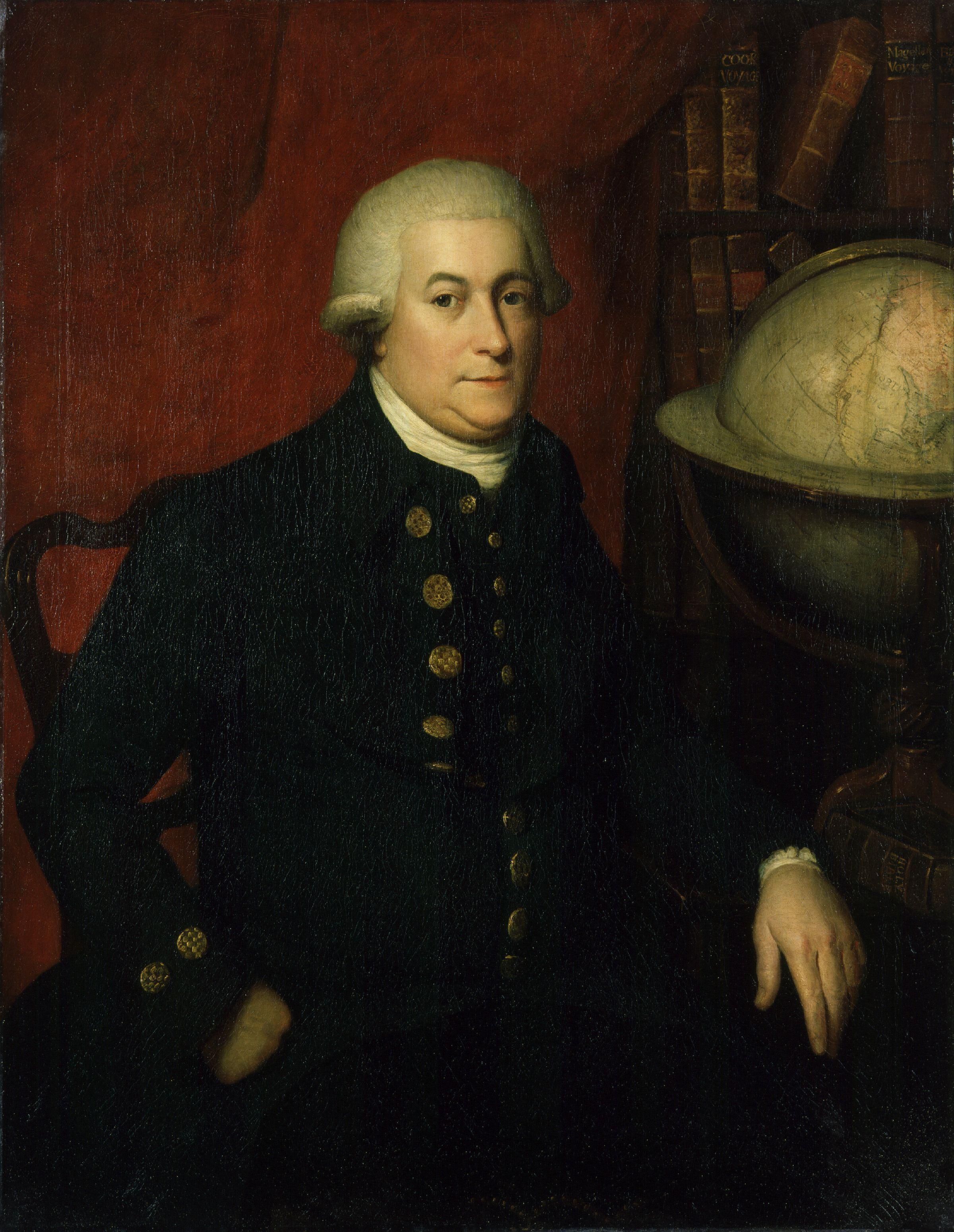 Probably George Vancouver